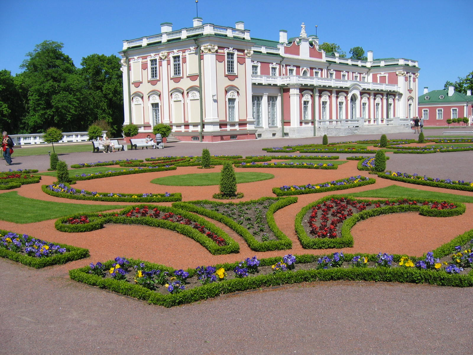 Kadrioru loss